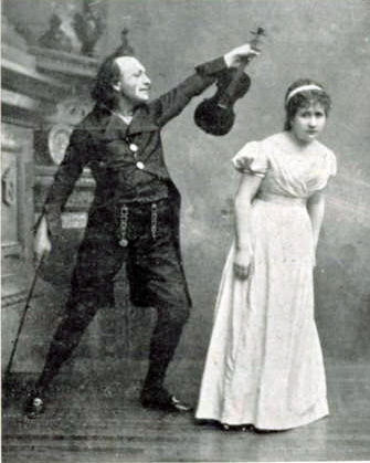 1881 photograph of Émile-Alexandre Taskin and Adèle Isaac as Dr Miracle and Antonia in the premiere of The Tales of Hoffmann, 1881.